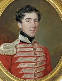 Portrait of Henry Dundas, 3rd Viscount Melville